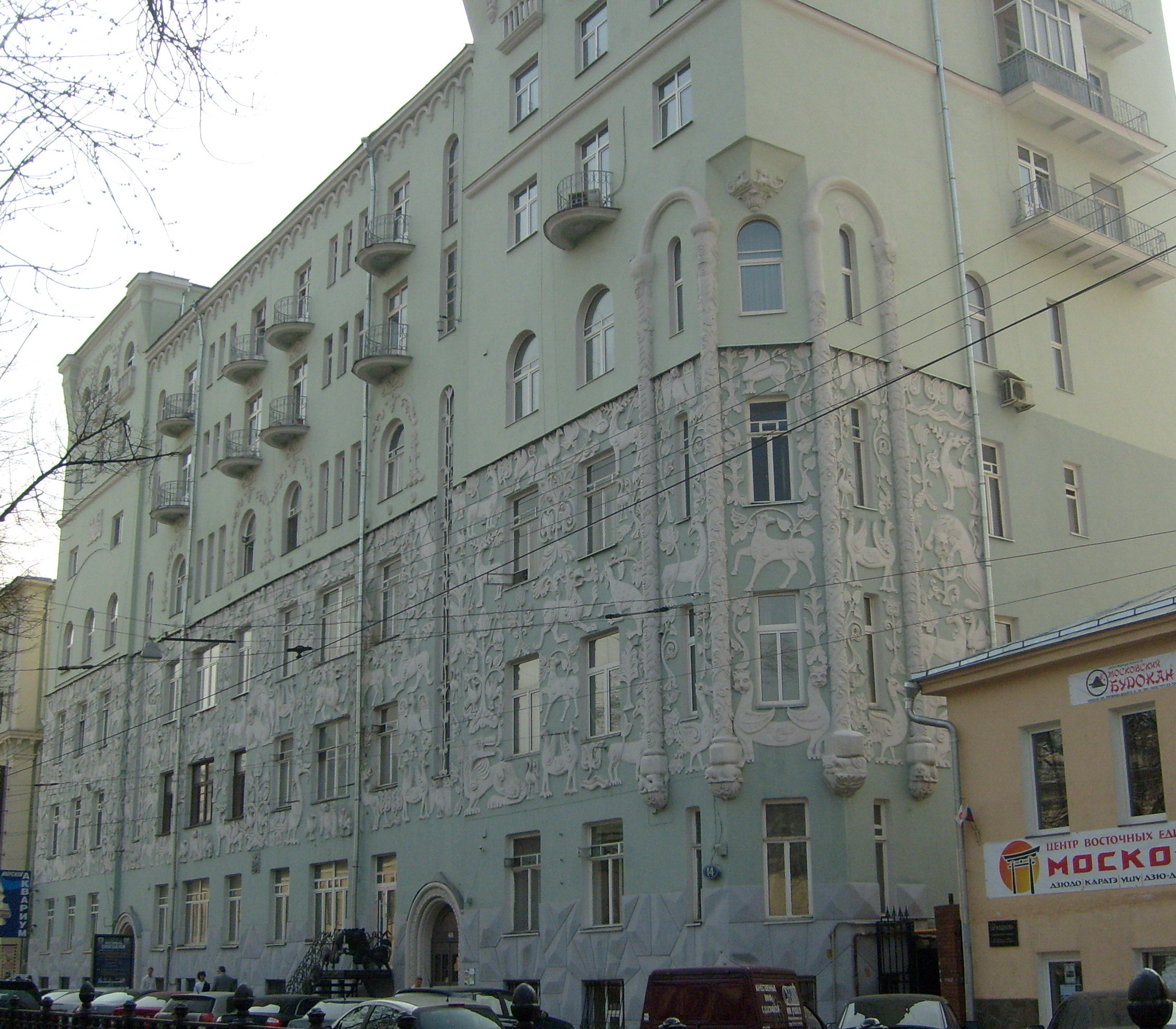 House with mystical beasts (Moscow, Chistoprudny boulevard, 14)